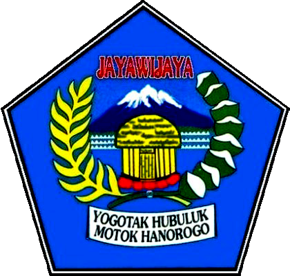 Coat of arms of Jayawijaya Regency